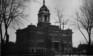 The NRHP-listed Osceola County Courthouse in Sibley, Iowa. Taken sometime in or before 1914.